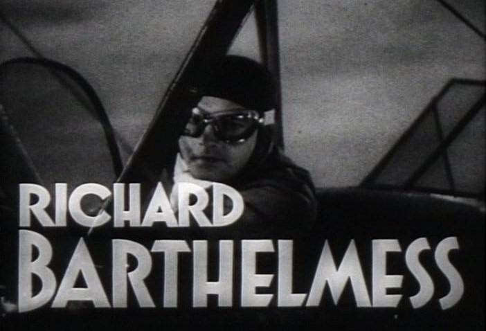 Frame from the public domain trailer for First National's 1933 film Central Airport showing Richard Barthelmess and his name in type